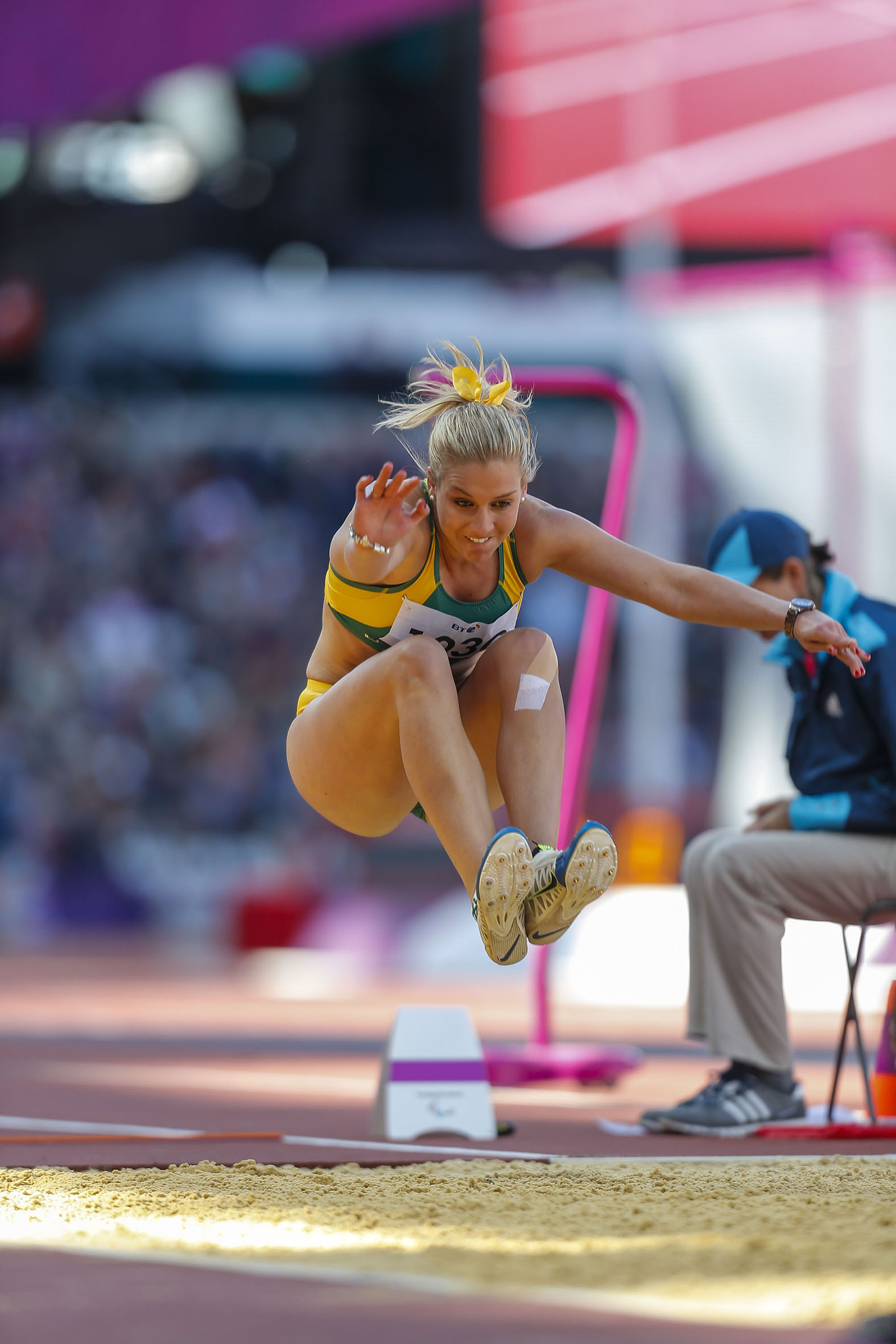 Photograph of Australian Paralympic team member Katy Parrish at the 2012 Summer Paralympic Games in London